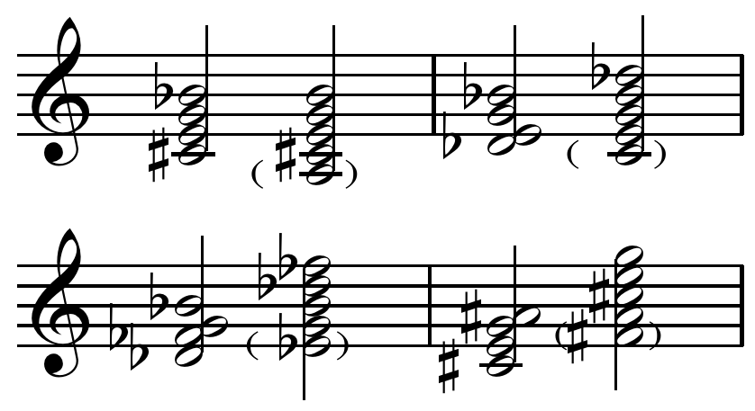 Diminished seventh chord's use in modulation.